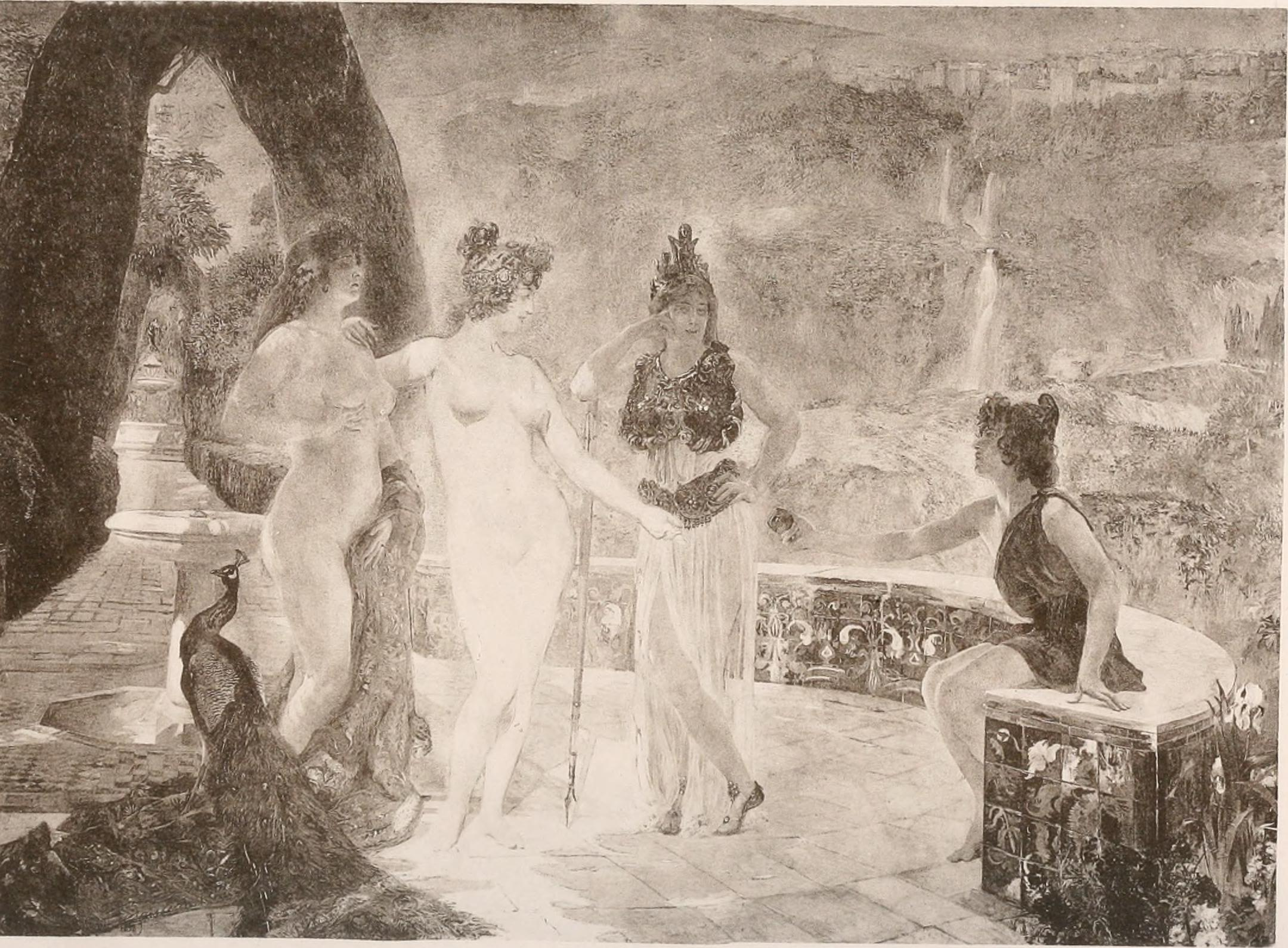 Title: Le Nu au salon Year: 1888 (1880s) Authors: Silvestre, Armand, 1837-1901 Société nationale des beaux-arts (France). Salon Société des artistes français. Salon Subjects: Nude in art Art Publisher: Paris : E. Bernard & Cie Text Appearing Before Image: ' Text Appearing After Image: '